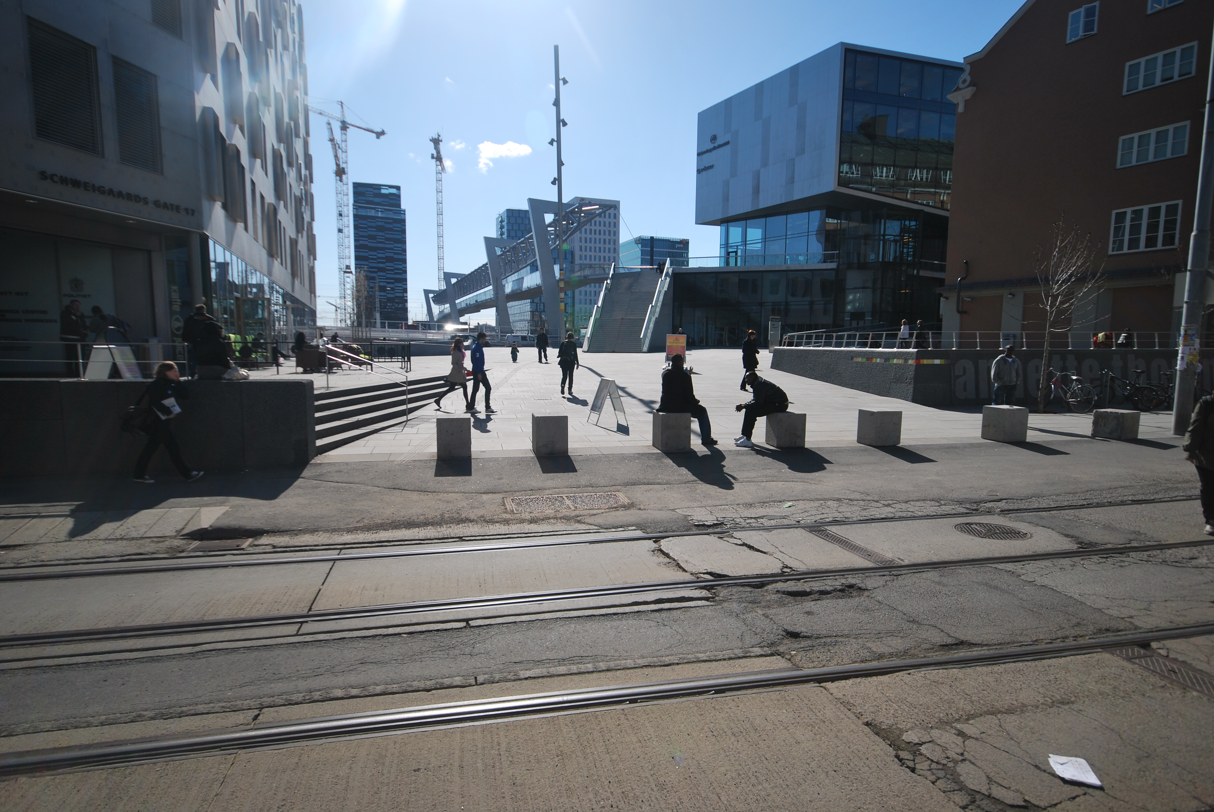 Annette Thommessen's Square (Norwegian "plass") sett fra Schweigaards gate. The suqare was opened in 2010. A pedestrian bridge, opened in April 2011, links the sqare to the seafront in Bjørvika.